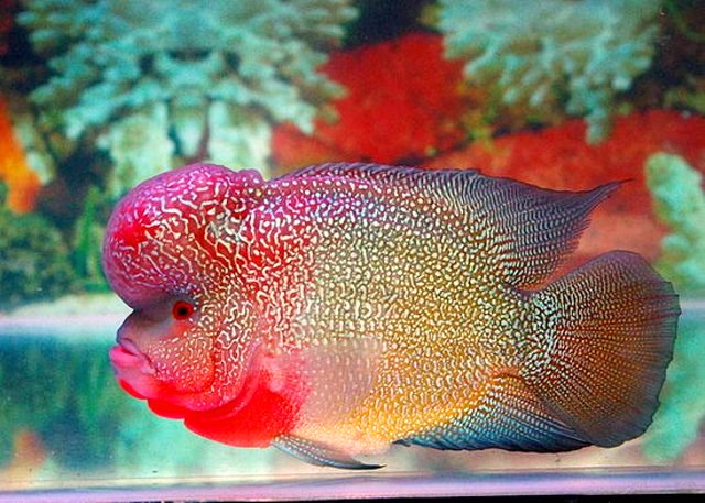 Elvis by ILC